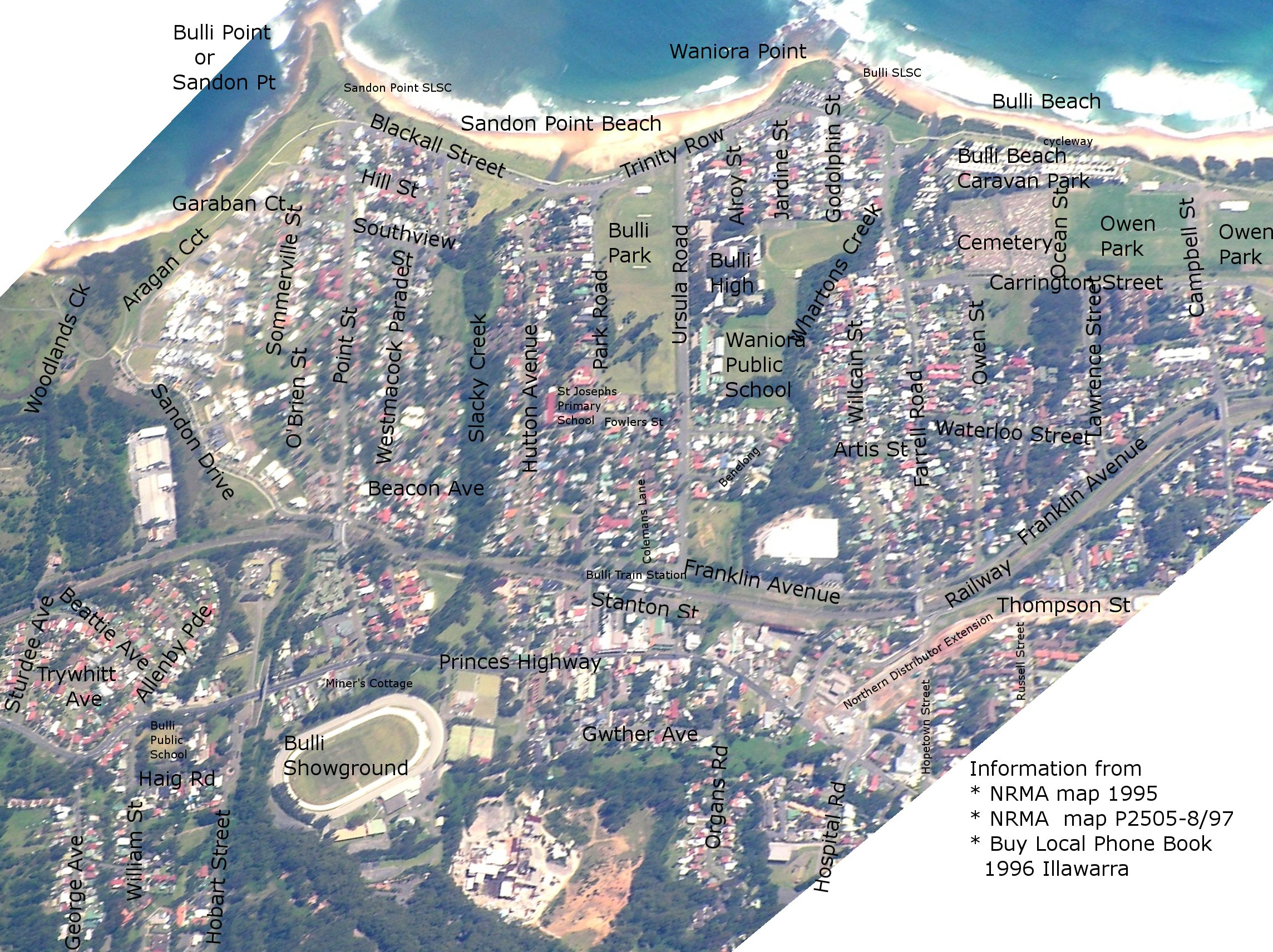 Map of Bulli NSW with road names on aerial photo